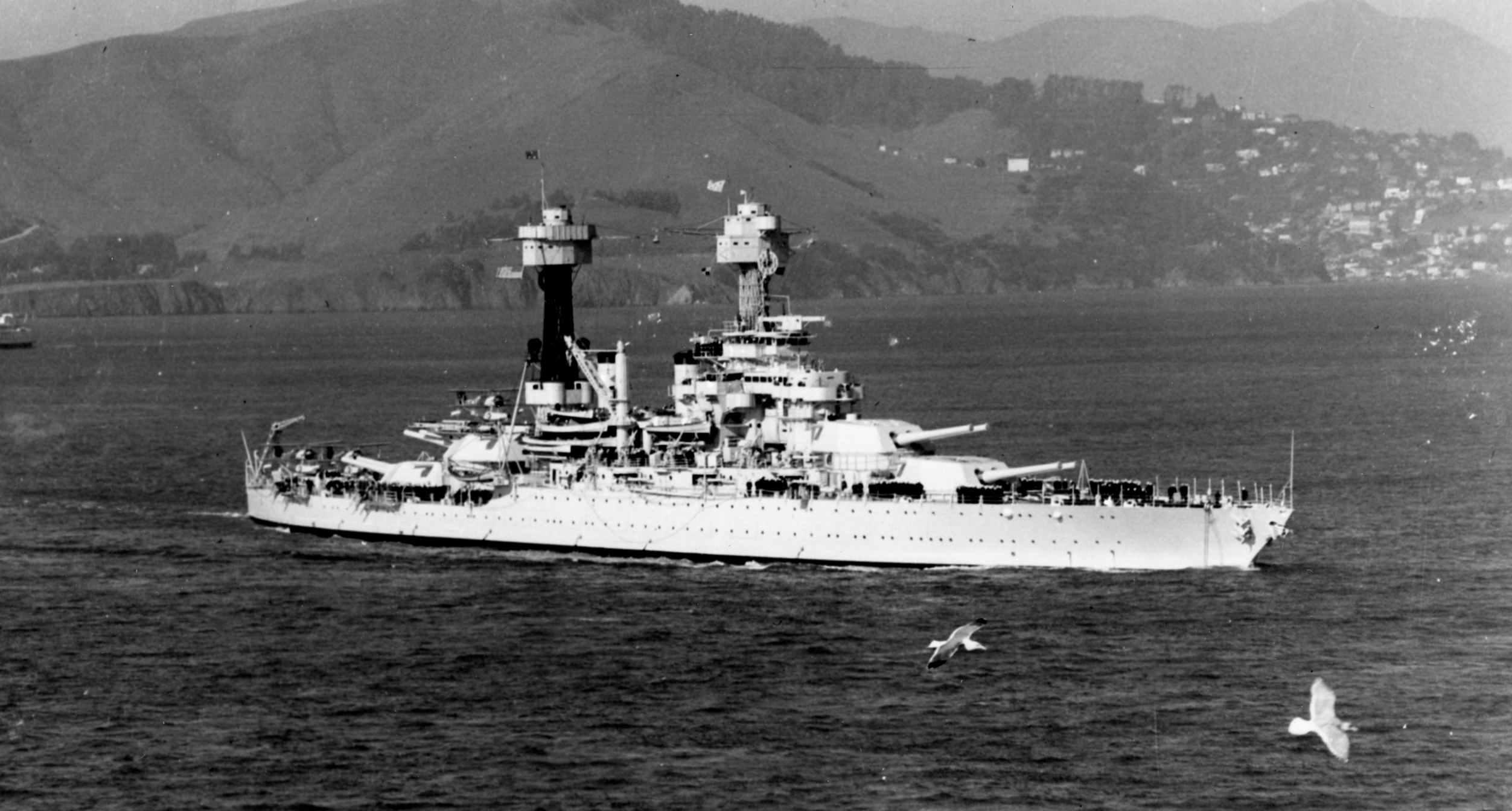 USS West Virginia (BB-48) Photo #: 80-G-1027204 In San Francisco Bay, California, circa 1934. Official U.S. Navy Photograph, now in the collections of the National Archives. Cropped from original image other West Virginia photos